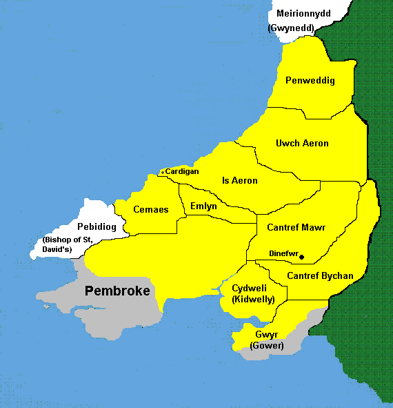 Deheubarth c.1190 showing areas ruled by Rhys ap gruffydd Rhion Pritchard; produced using MS Paint 04/08/2006